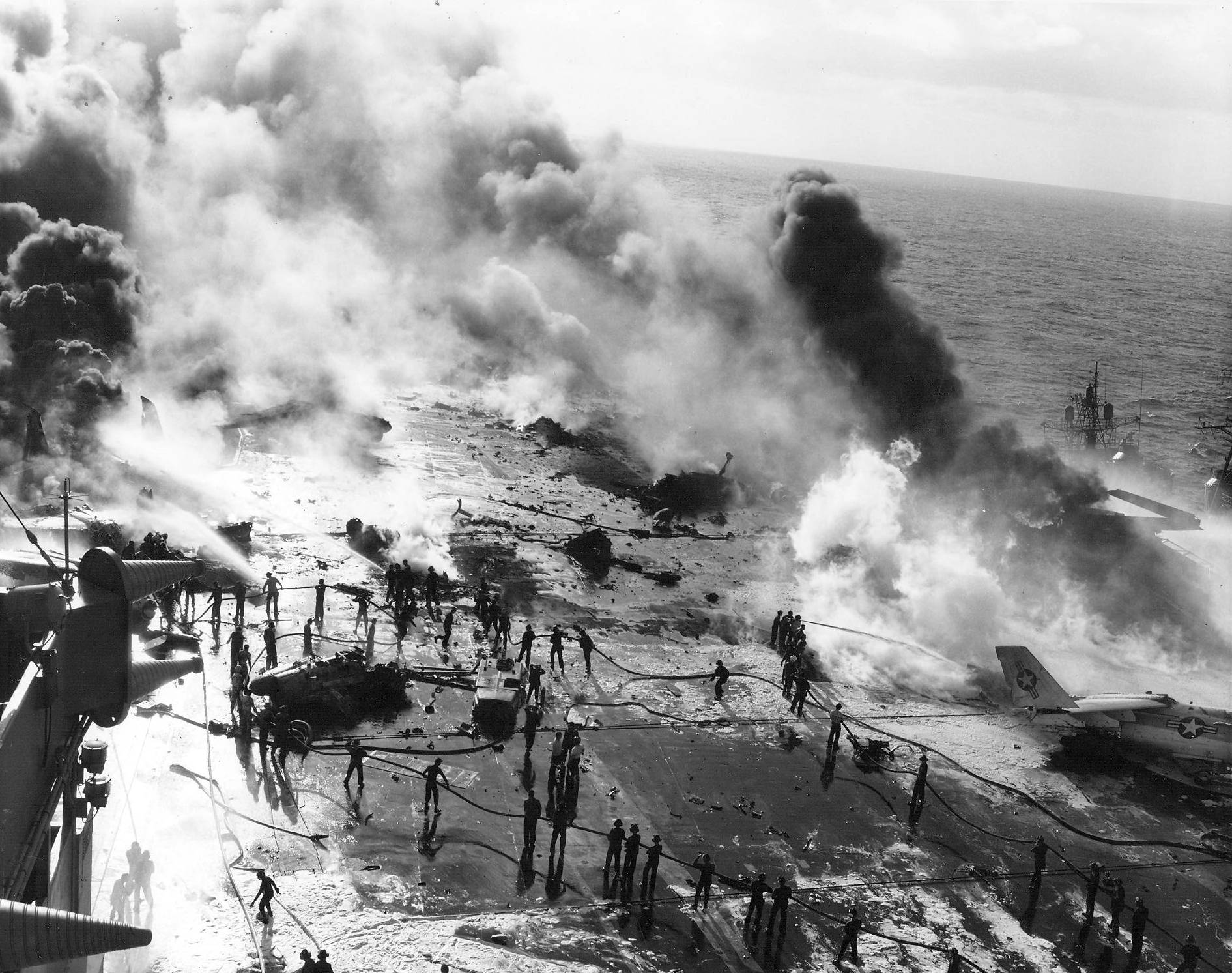 View of the U.S. Navy aircraft carrier USS Enterprise (CVAN-65) underway in the Pacific Ocean showing the crew fighting a fire on the flight deck that occurred as the carrier was conducting air operations near Hawaii. The masts of the destroyer USS Rogers (DD-876) are visible on the right.